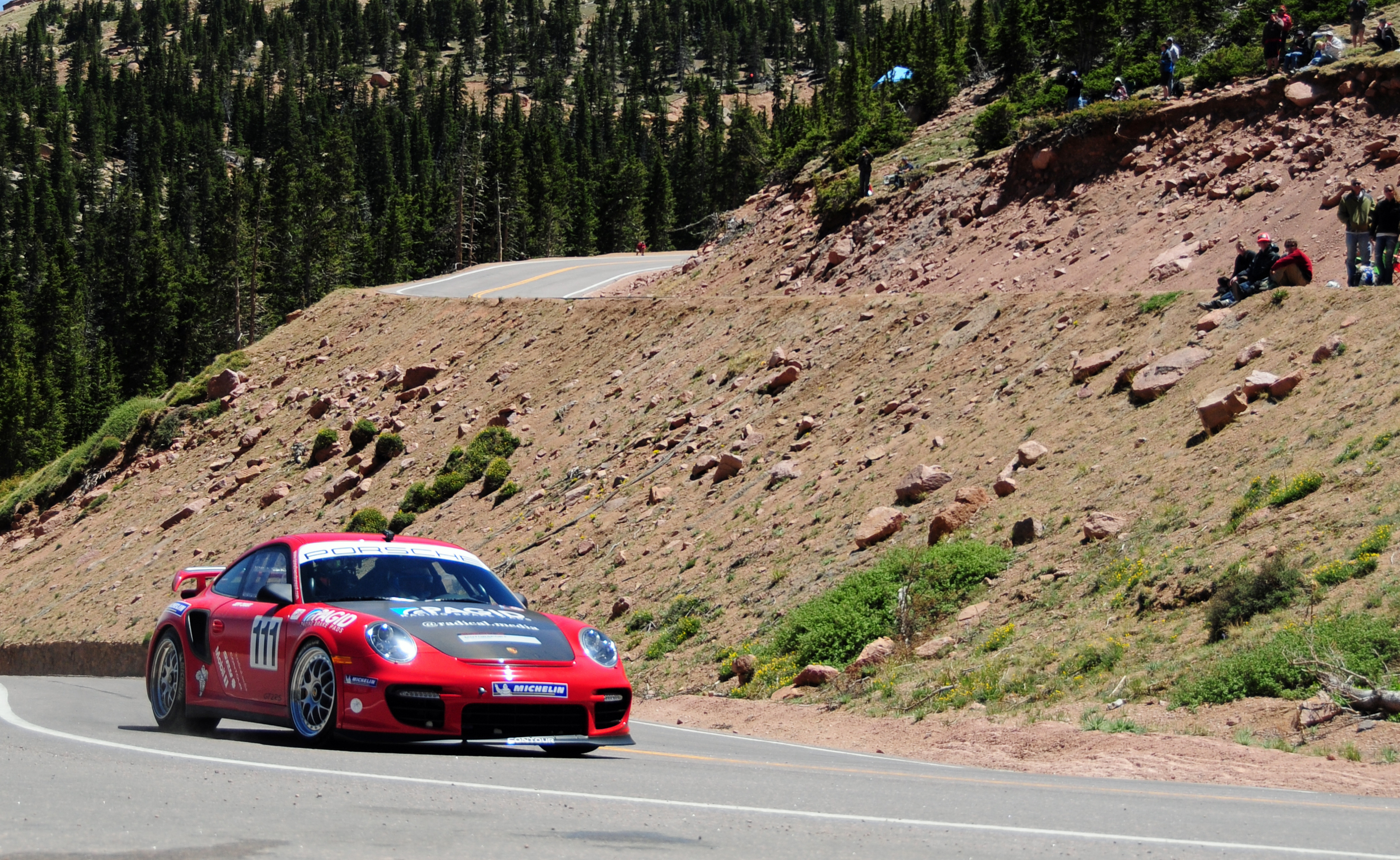 Jeff Zwart with the Porsche GT2 RS during the 2011 Pikes Peak Hill Climb.Mile 13